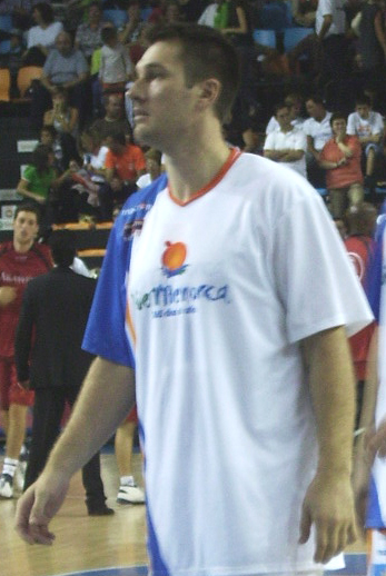 Marko Tusek with ViveMenorca. Match ViveMenorca-Akasvayu Girona